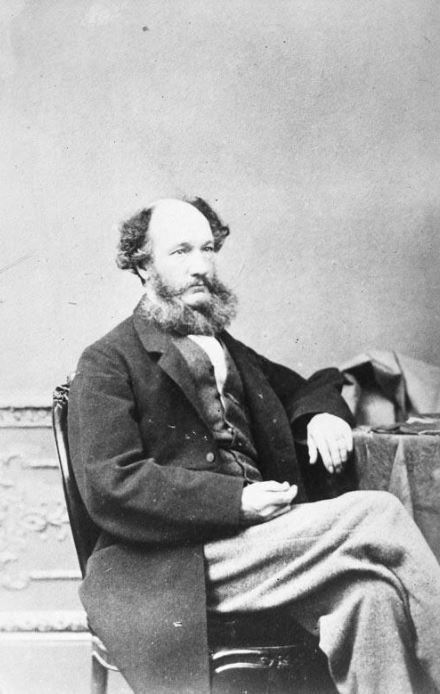 Photograph of Francis Jollie, Colonial Treasurer